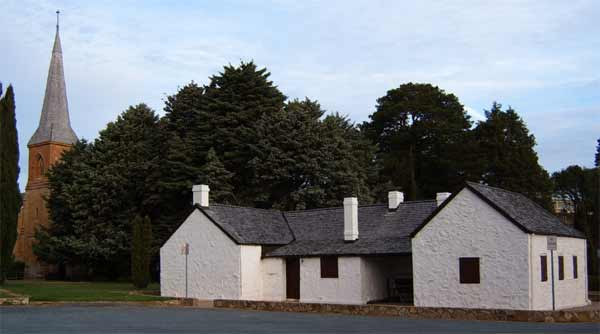 Category:Images of Canberra St John the Baptist Anglican church (1841 and One-room school (1845), Canberra, Australia I took this picture on 4 May 2005. Peter Ellis 12:28, 4 May 2005 (UTC)